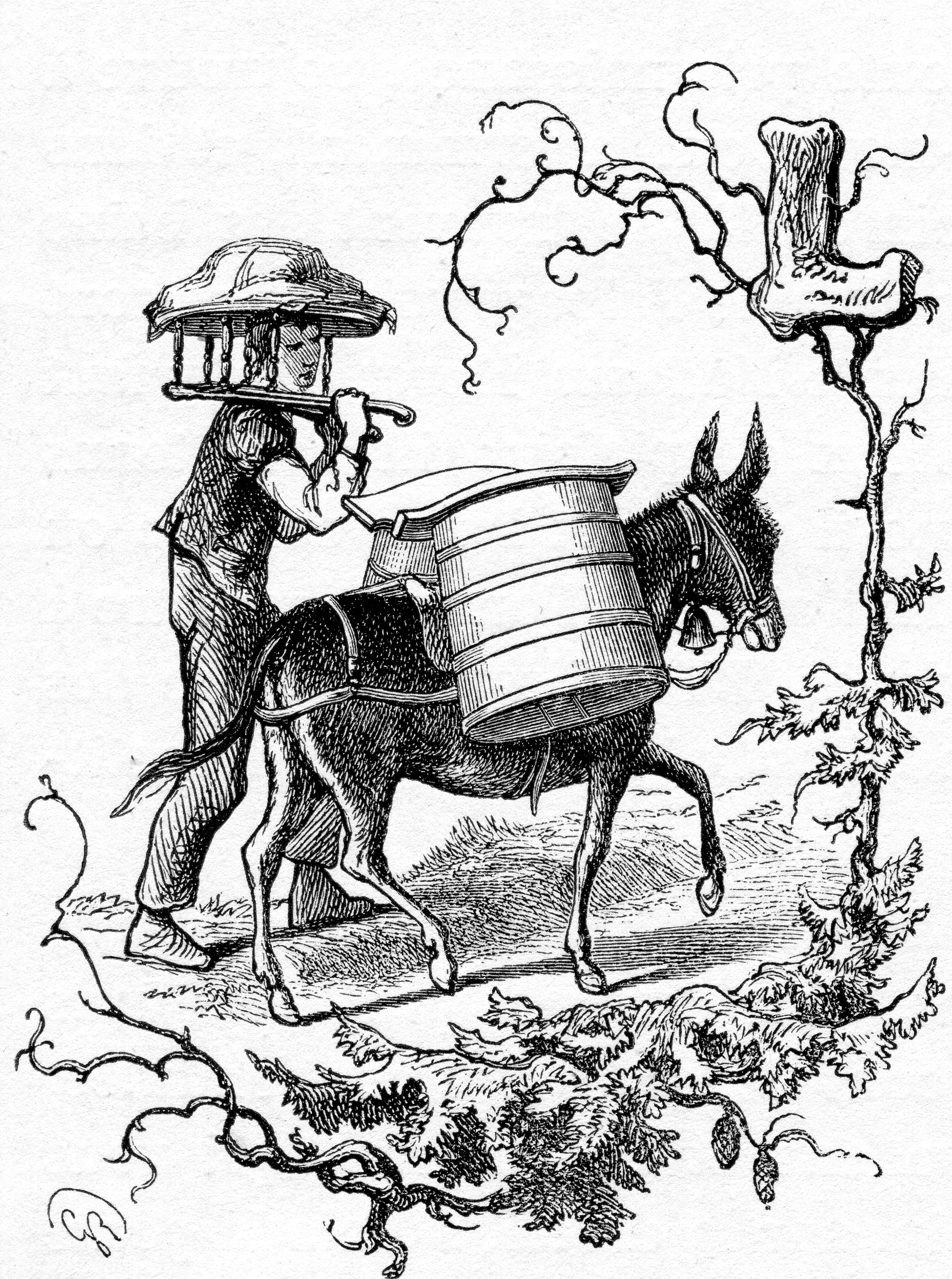 Gustave Roux 04 vignette 'L'